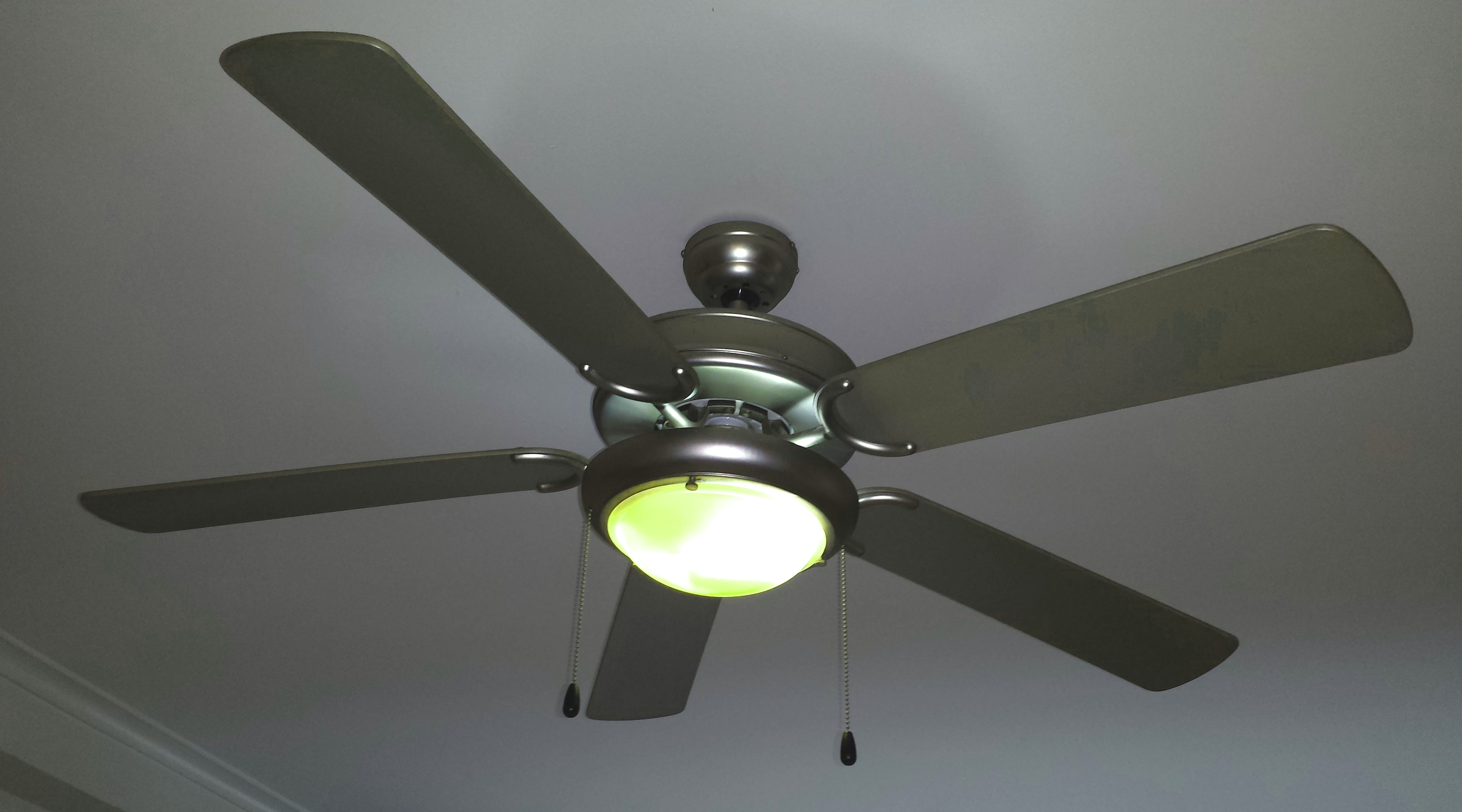 A ceiling fan with lamp